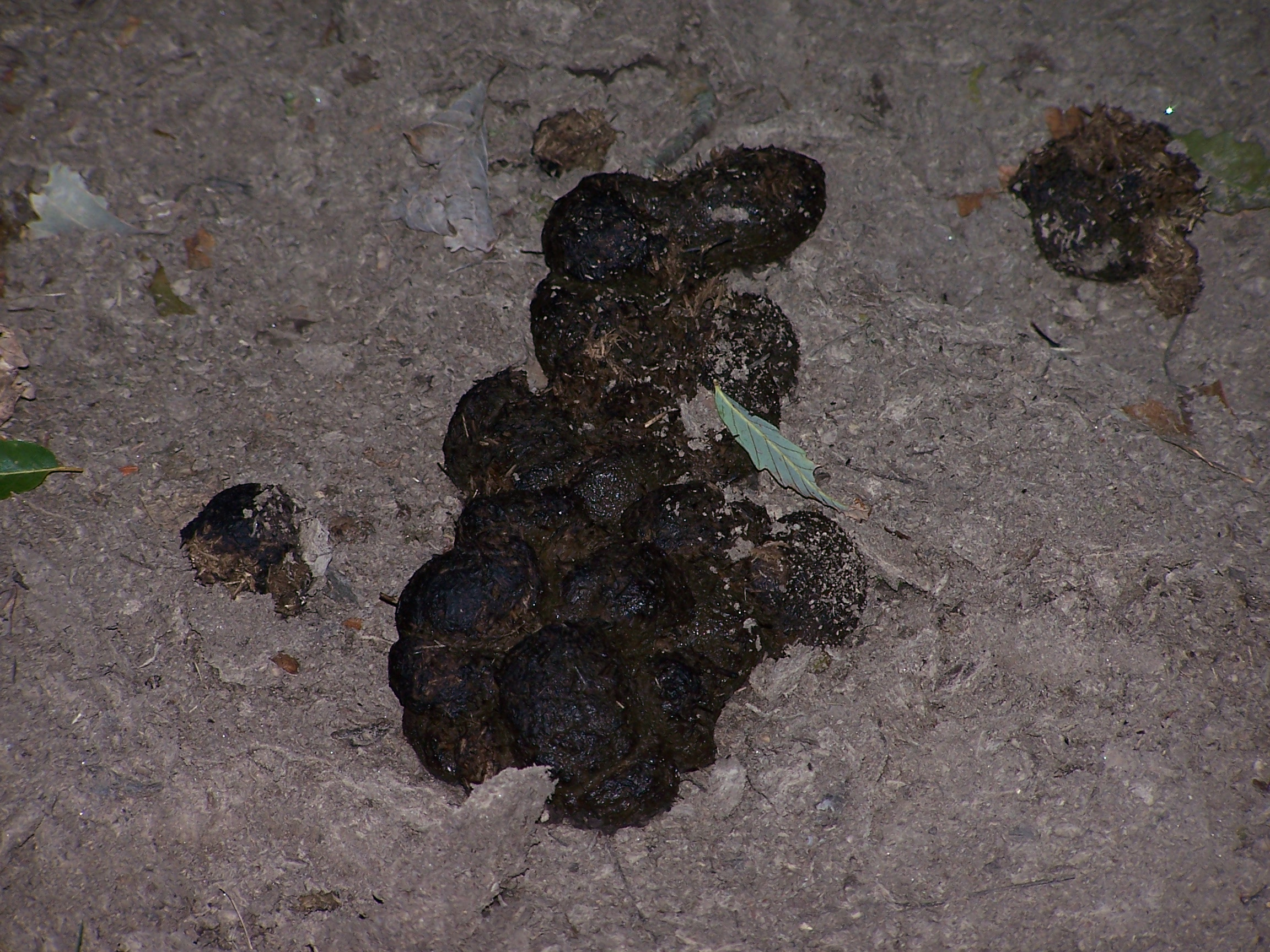 Manure from a horse